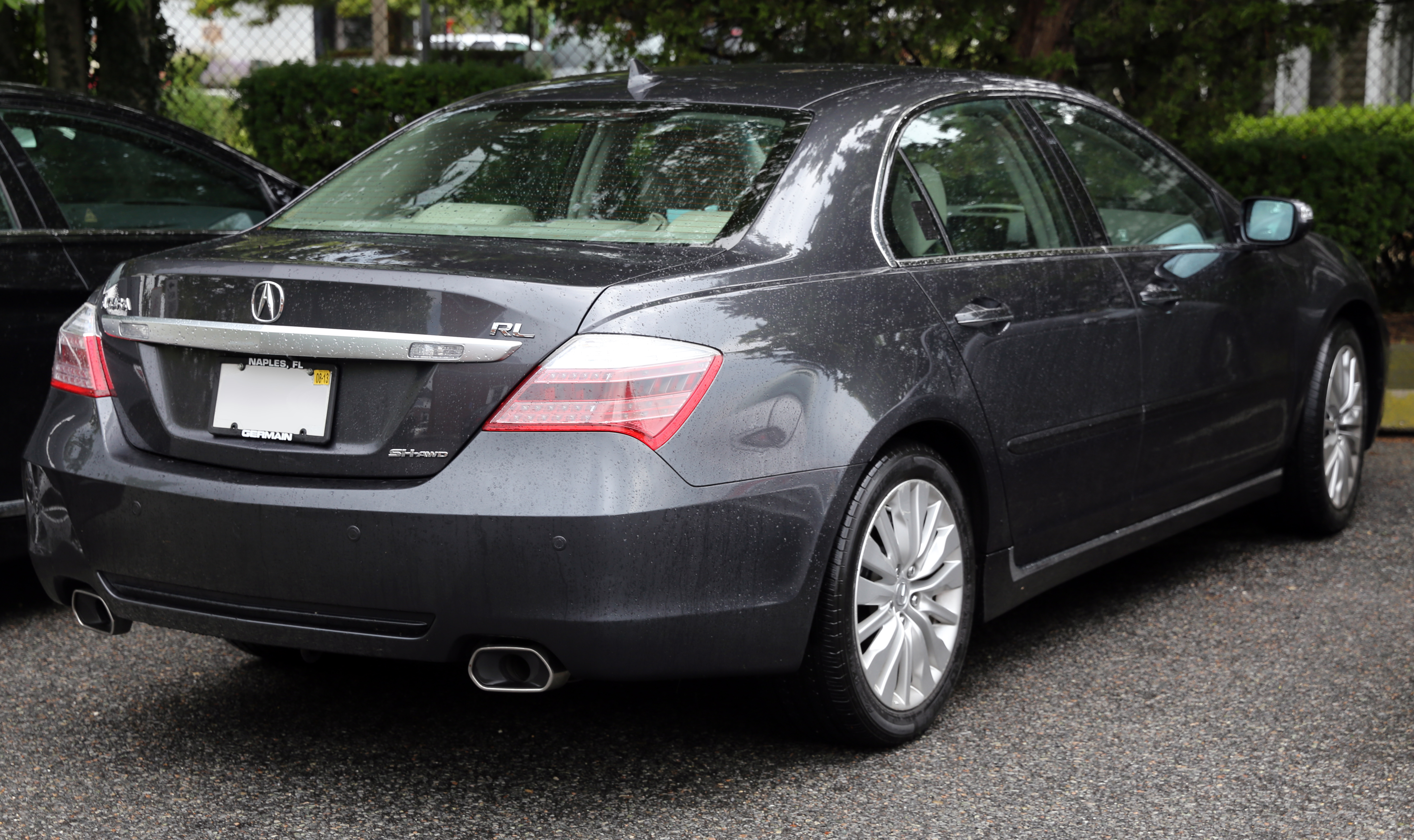 2011 Acura RL SH-AWD with Technology package. Chassis number 268, this car didn't sell very strongly.